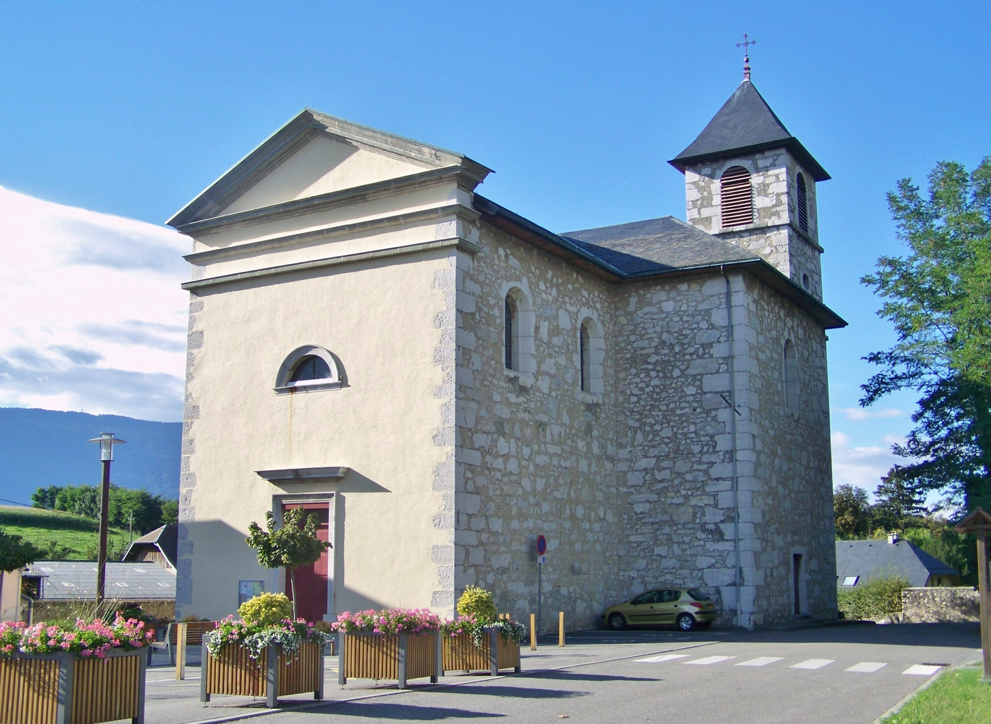 Sight of the church of the French commune of Sonnaz, in the North of Chambéry, in Savoie.